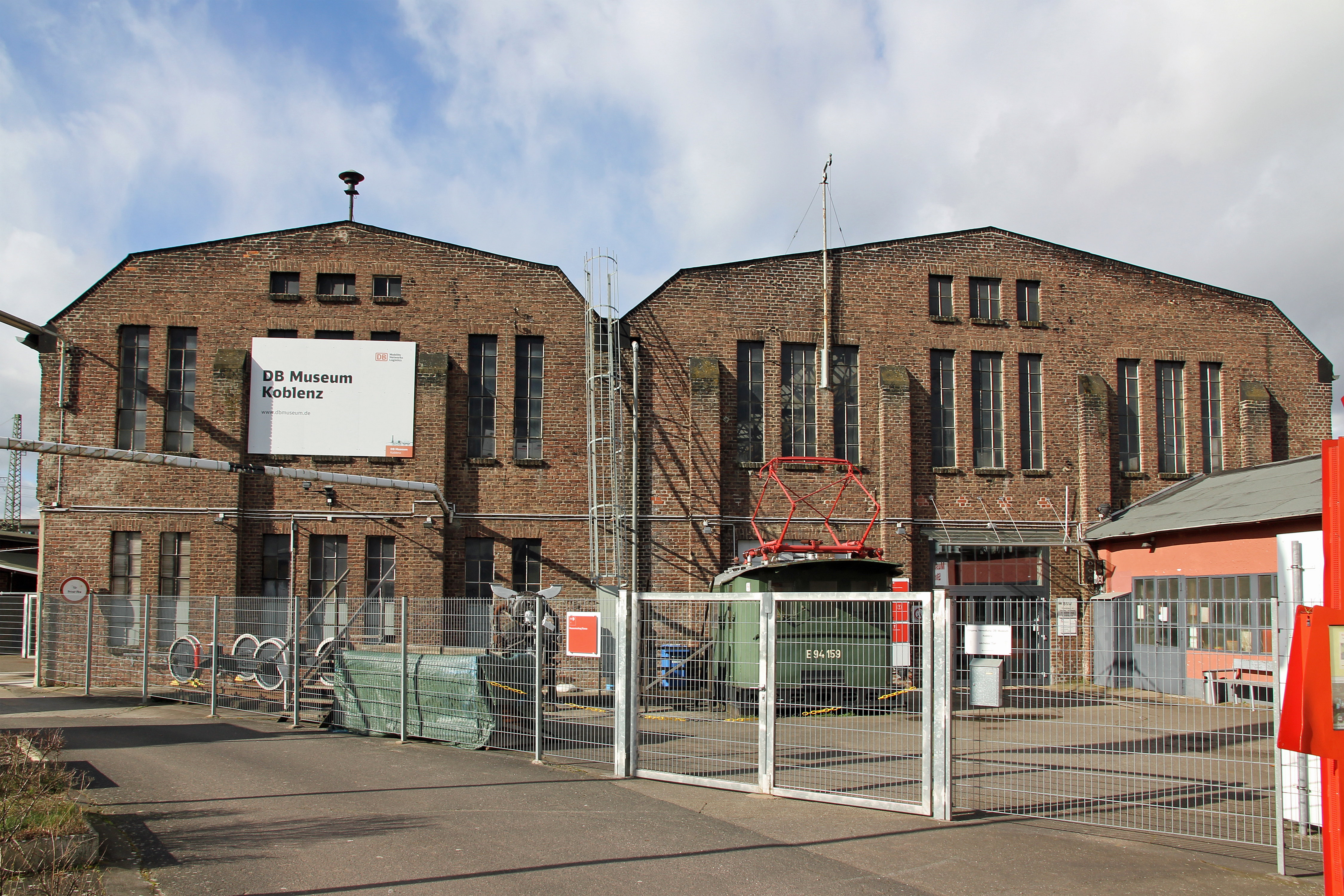 Bahnbetriebswerk Koblenz-Lützel in Koblenz